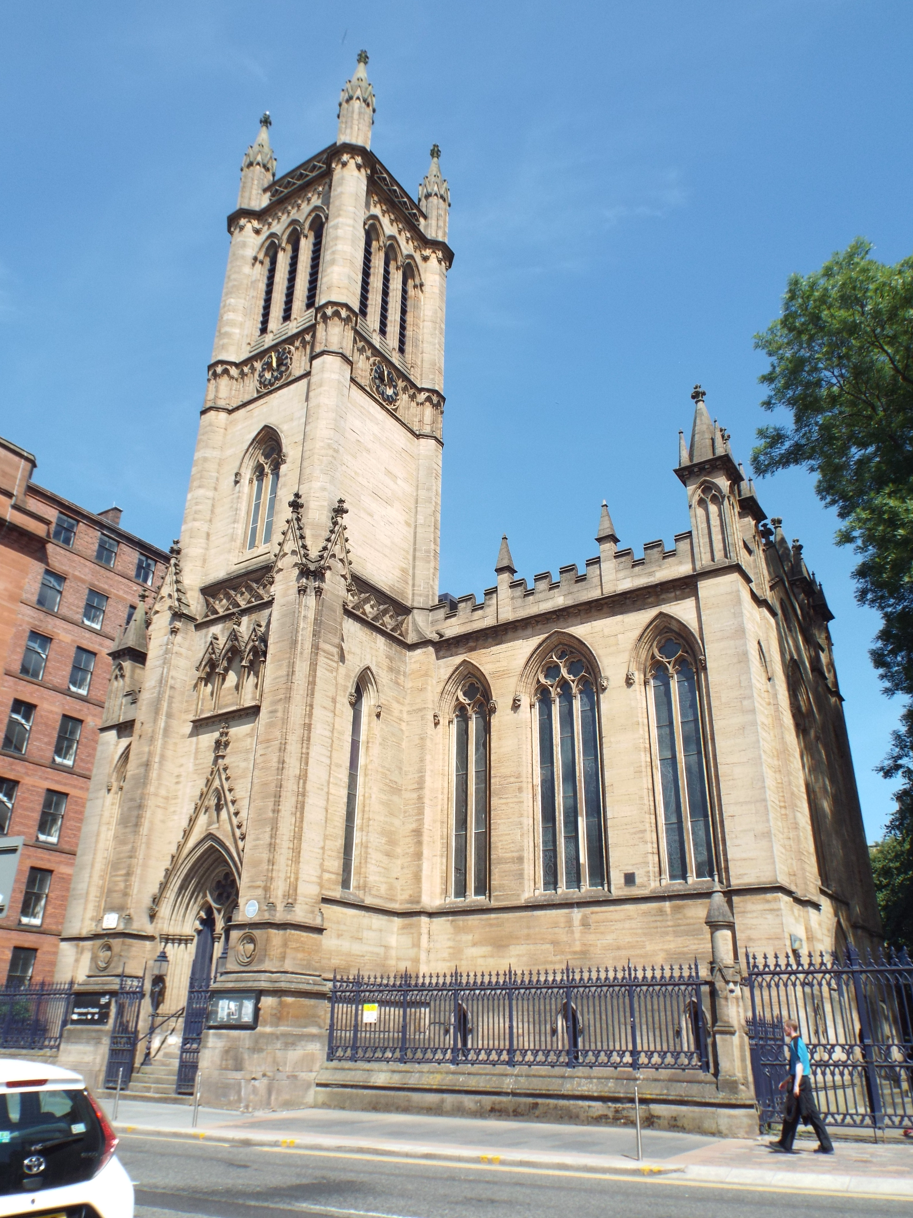 Wikipedia:Ramshorn Theatre